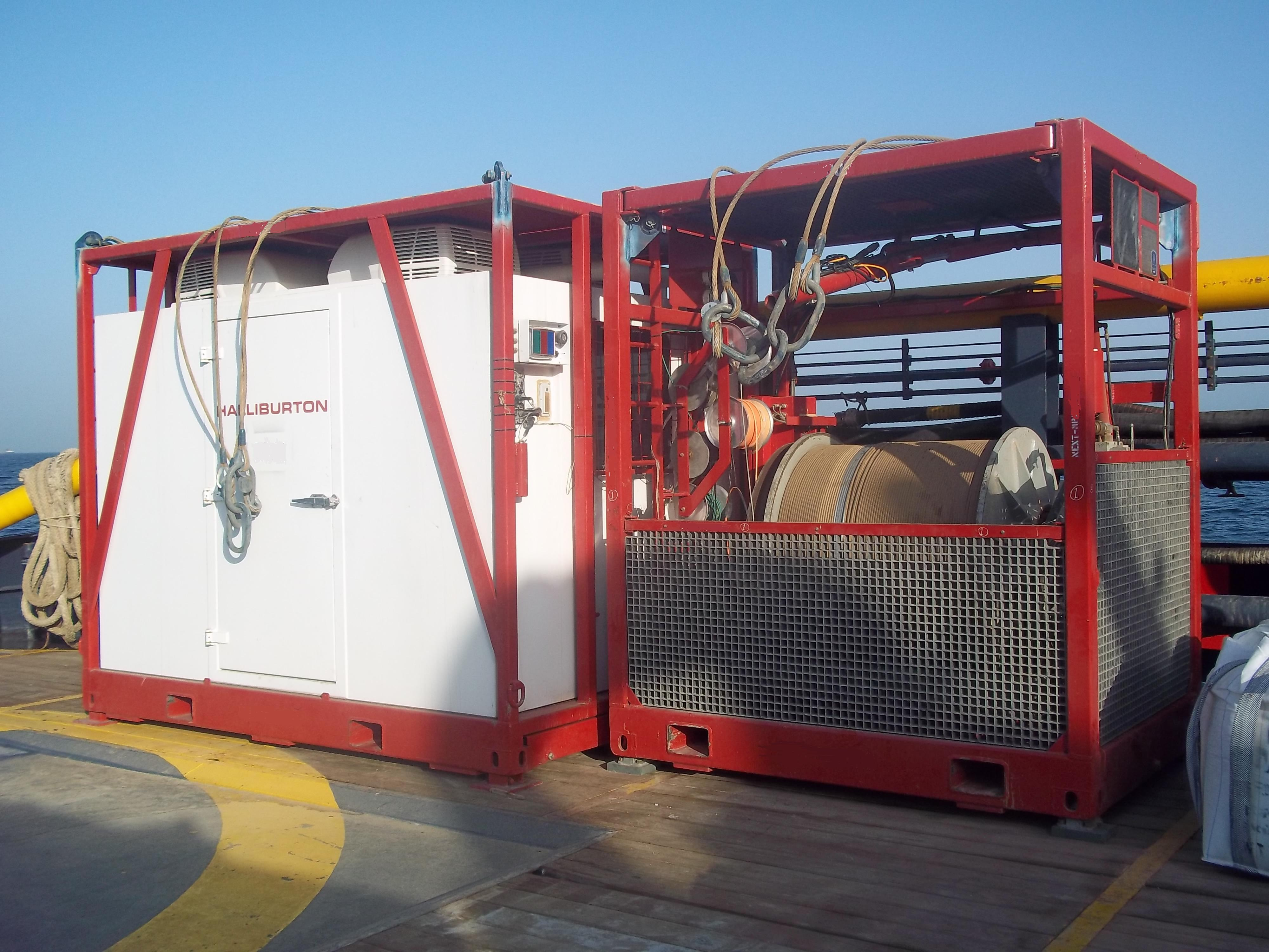 Equipment for well-logging carried out on offshore drilling rig. Cabin contain place for operators and electronics. Reel of wire used for lowering and recovering of sensors.